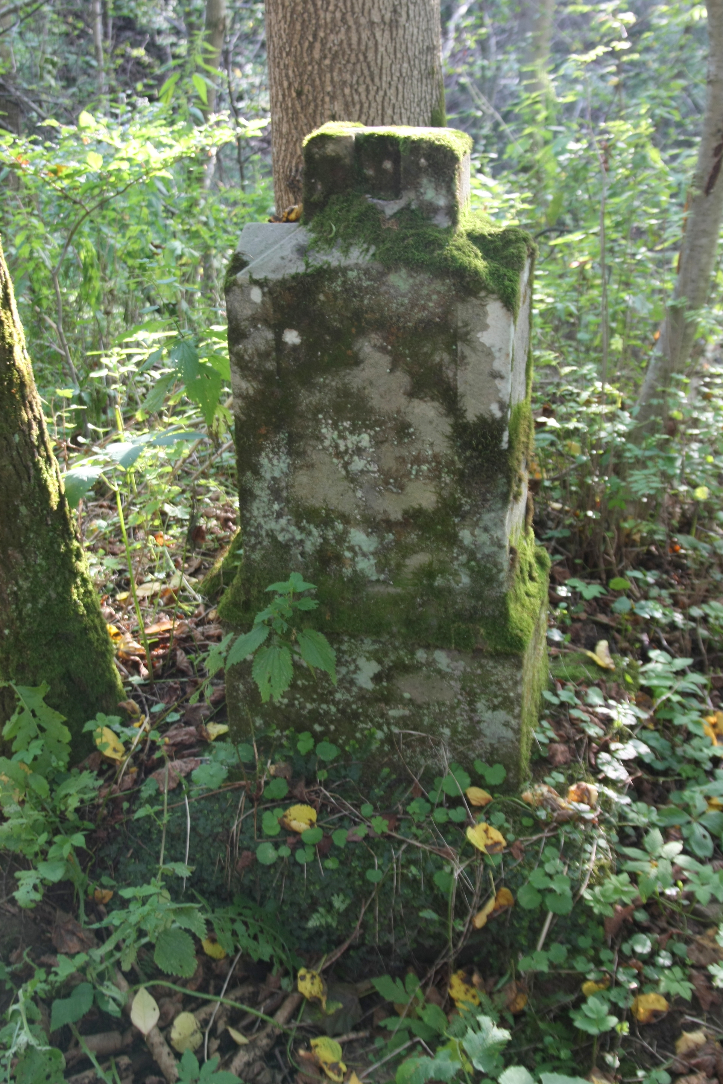 Place after church in Serednica.